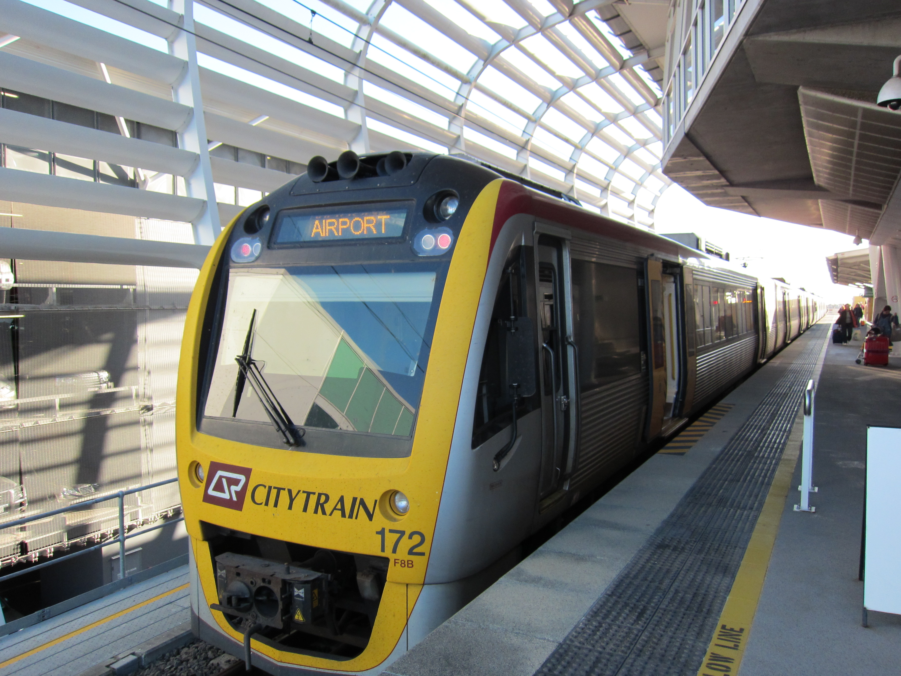 Queensland Rail IMU at the Brisbane Airport International Terminal railway station.